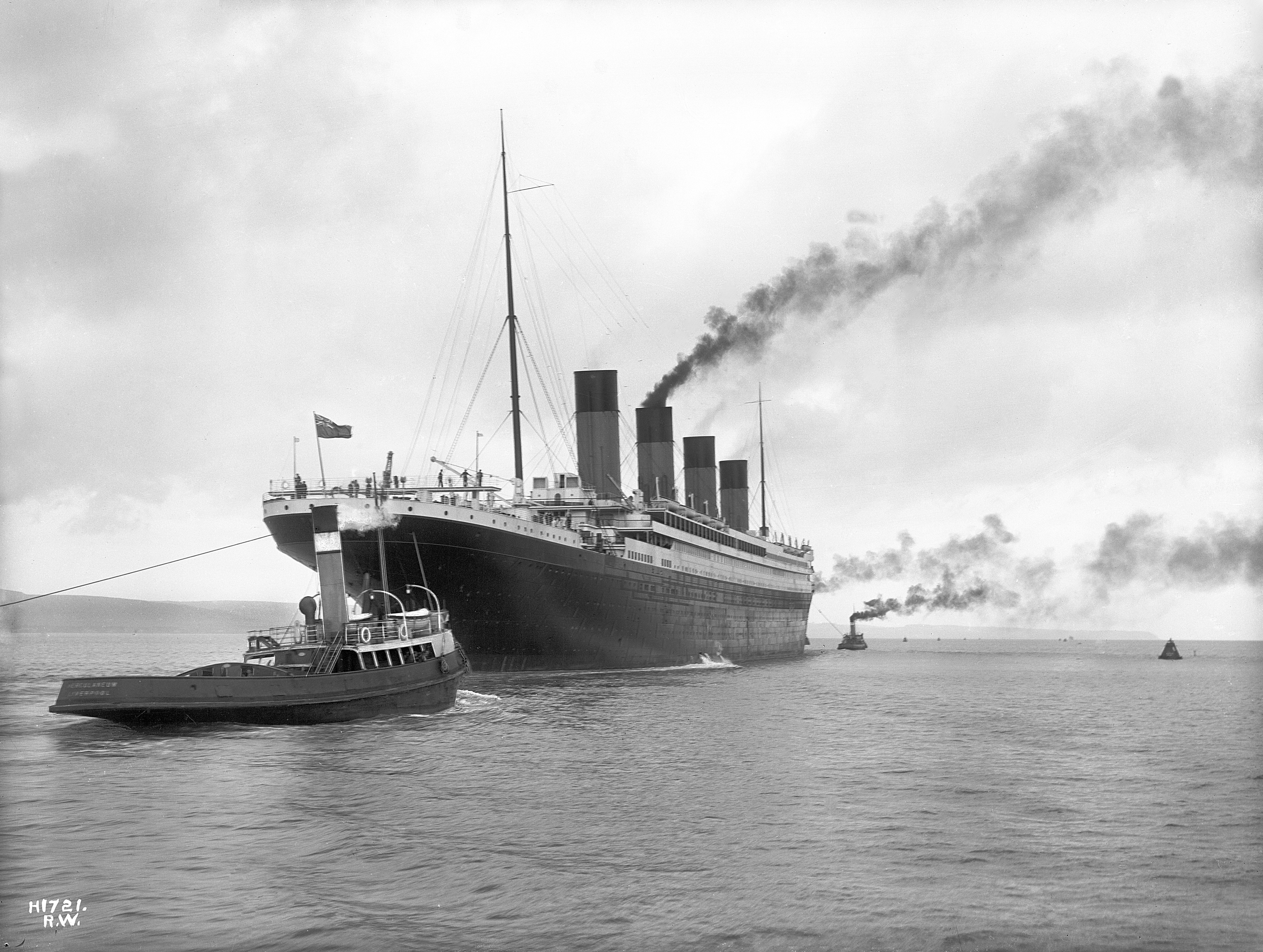 Titanic leaving Belfast with two guiding tugs visible (actually there were five tugs used).